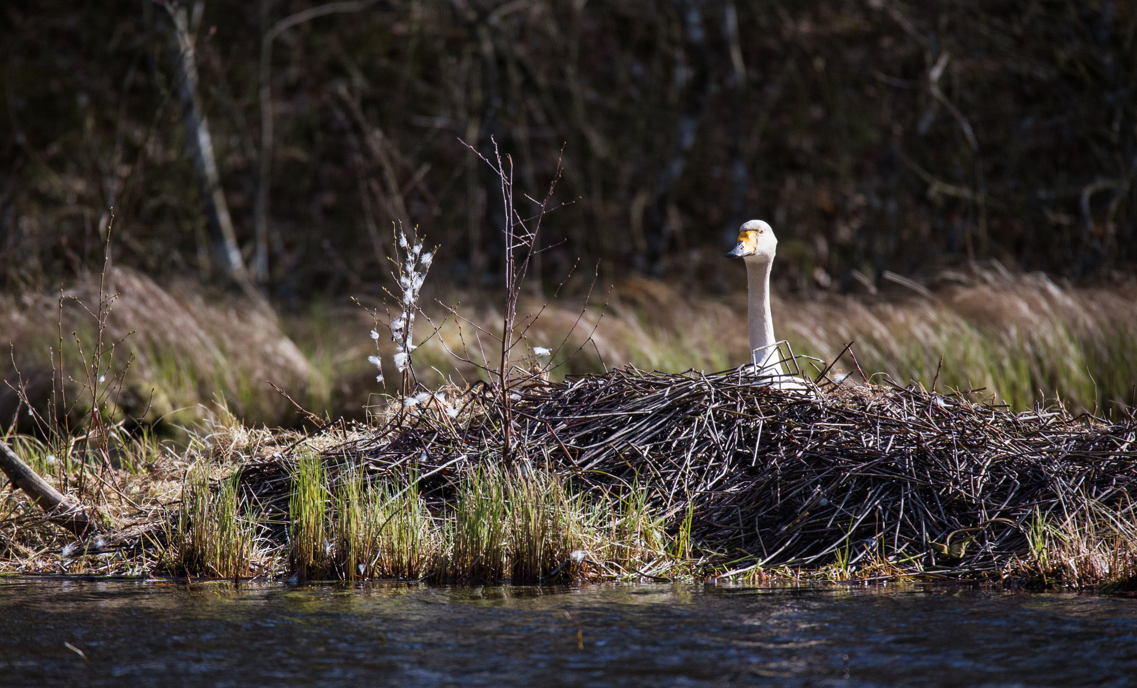 Whooper swan on nest.